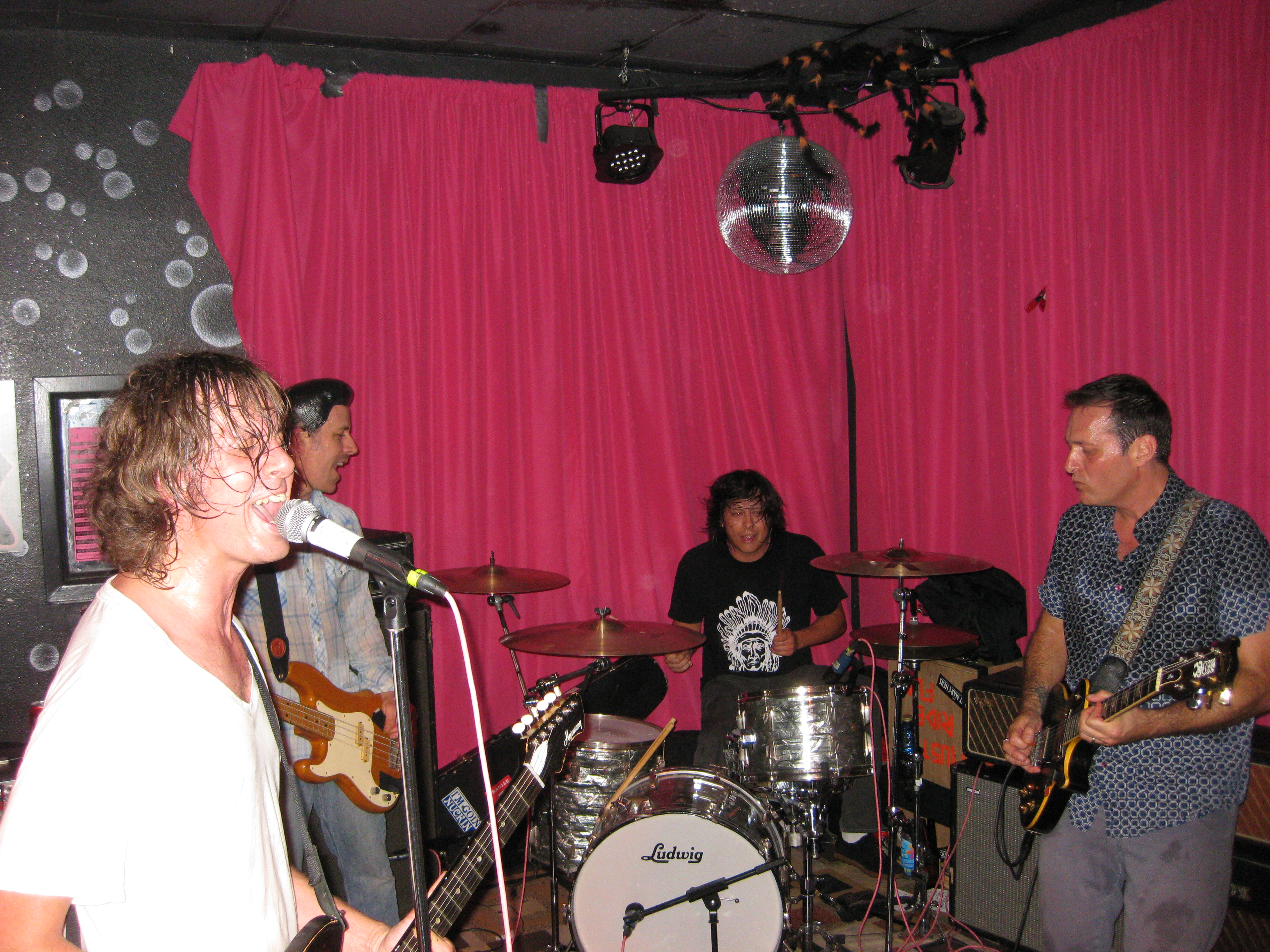 Hot Snakes performing November 4, 2011 at Bar Pink in San Diego, California. Left to right: singer/guitarist Rick Froberg, bassist Gar Wood, drummer Mario Rubalcaba, and guitarist John Reis.